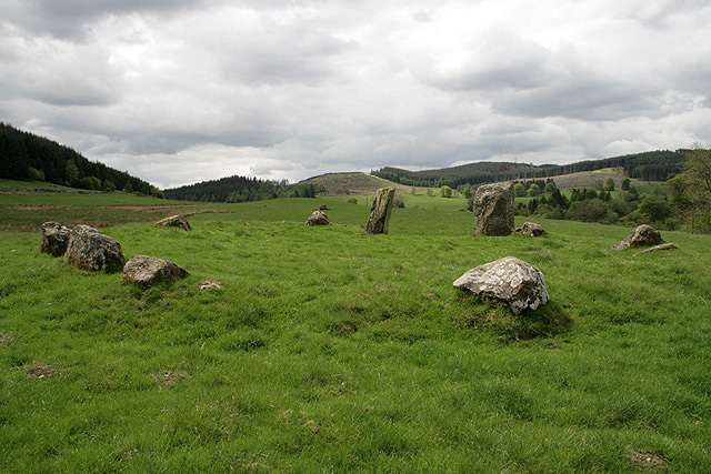 The Loupin' Stanes stone circle This stone circle by the White Esk has two large entrance stones at west-southwest and a circle of ten other stones set in a low platform.